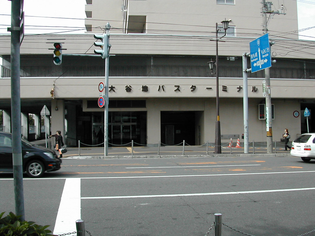 Oyachi bus terminal(Sapporo city subway Oyachi station) 大谷地バスターミナル（東側＝バス出入口側から撮影）